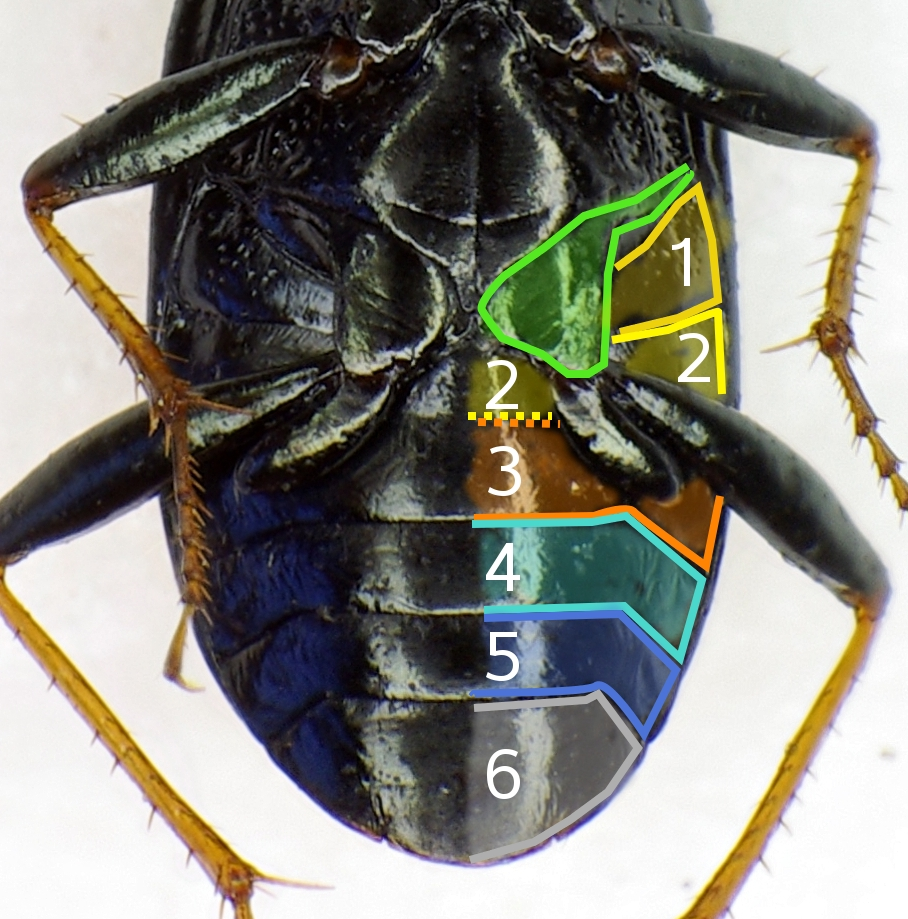 Abdomen of Loricera pilicornis from underside grün:Hinterhüfte 1,2,...6 Abdominalsternite